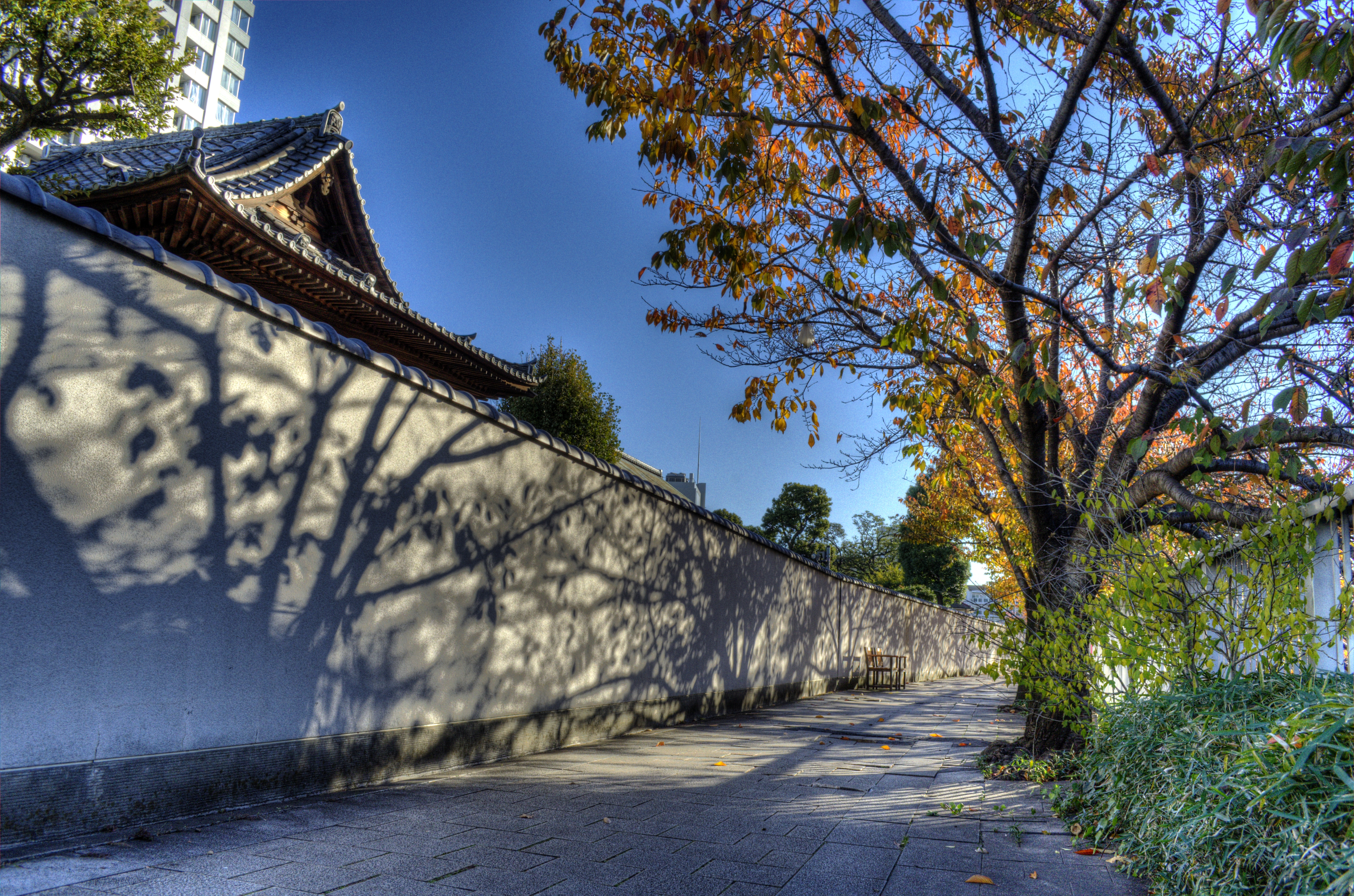 Kita Shinagawa 3-Chōme, Shinagawa, Tokyo.